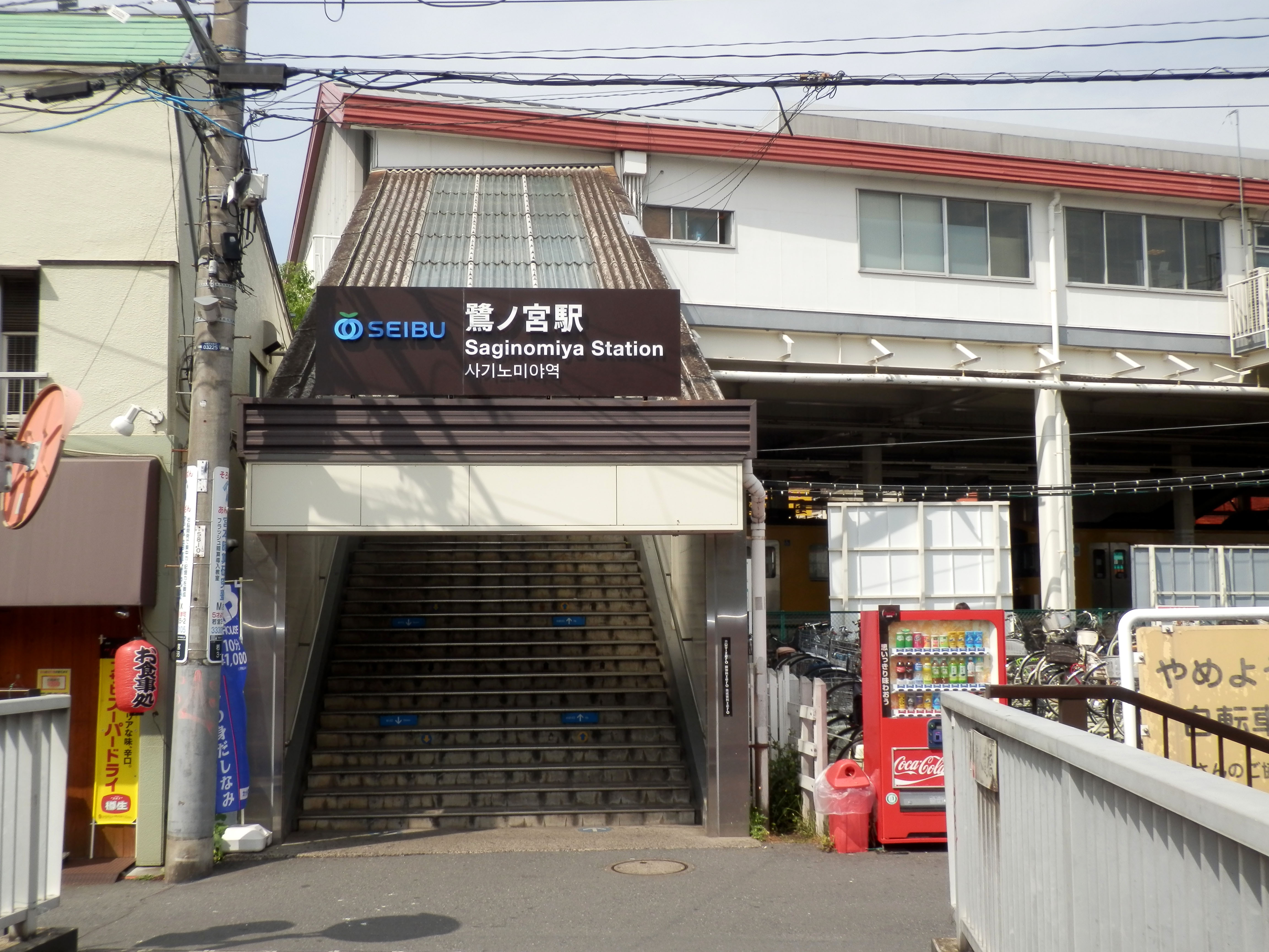 Saginomiya station (Seibu Shinjuku Line in Tokyo, Japan) south entrance